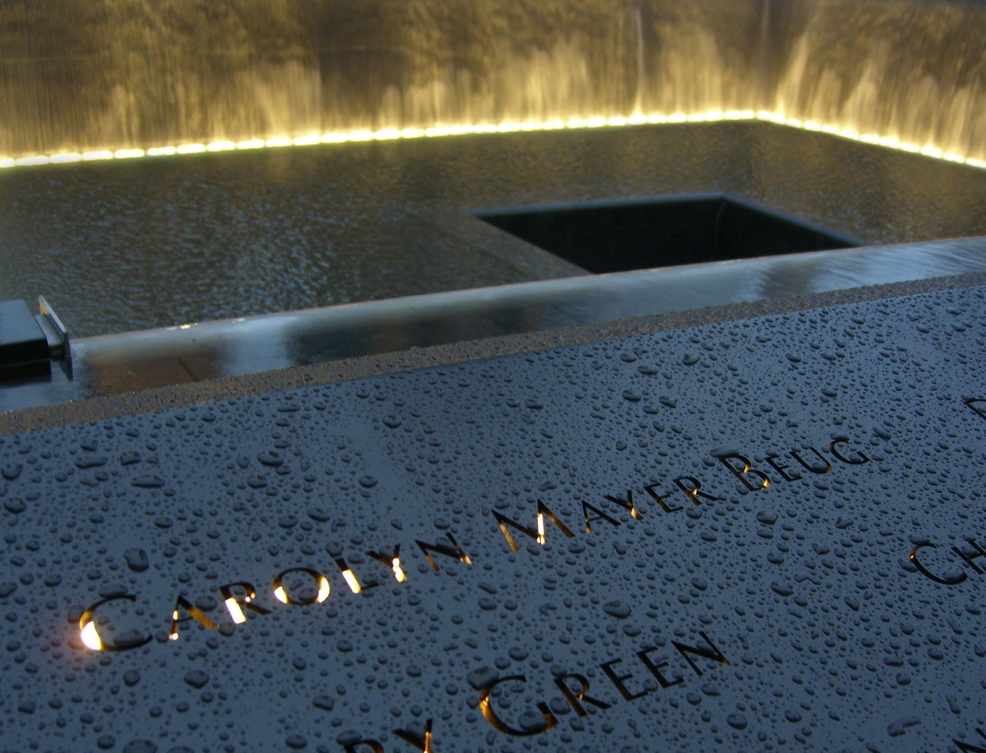 The name of 9/11 victim Carolyn Beug inscribed in bronze on panel N-1 of the North Pool of the National September 11 Memorial & Museum in Manhattan, as seen on December 6, 2011. This photo was created by Luigi Novi. If you have any questions, you can contact me by sending me an email or User talk:Nightscream